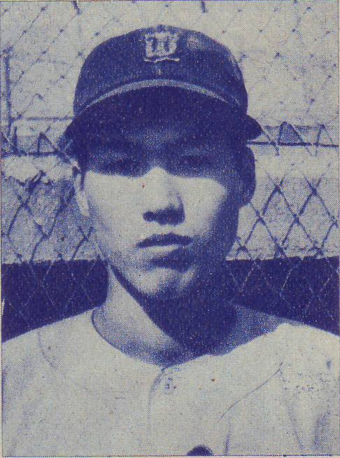 Tadashi Hyodo (Takahashi Unions). taken in 1955.